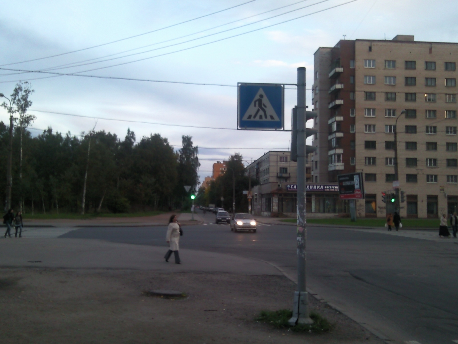 Kozlova Street (Saint Petersburg)